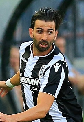 PAOK VS. Spartak Moscow 8 august 2018